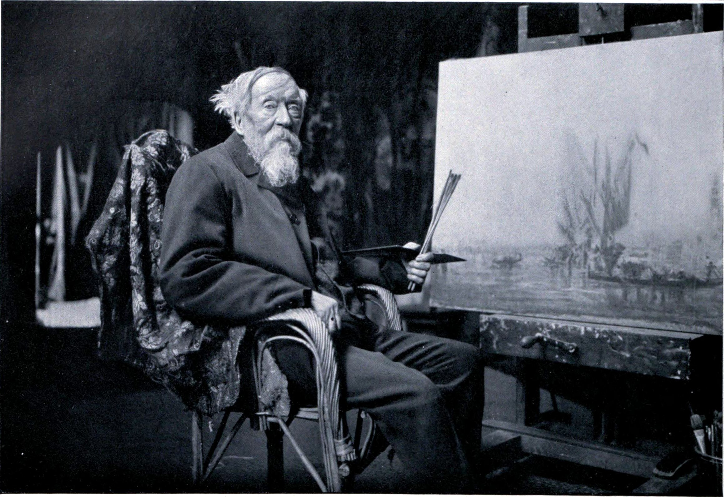 Felix Ziem in his studio